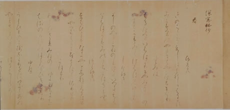 Shinsō Hishō (深窓秘抄)